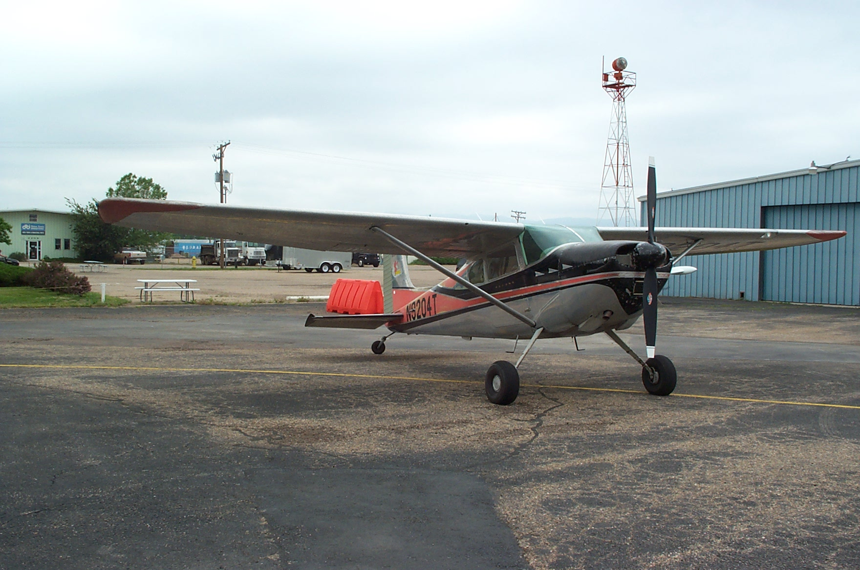 1960 Cessna 180C (N9204T)